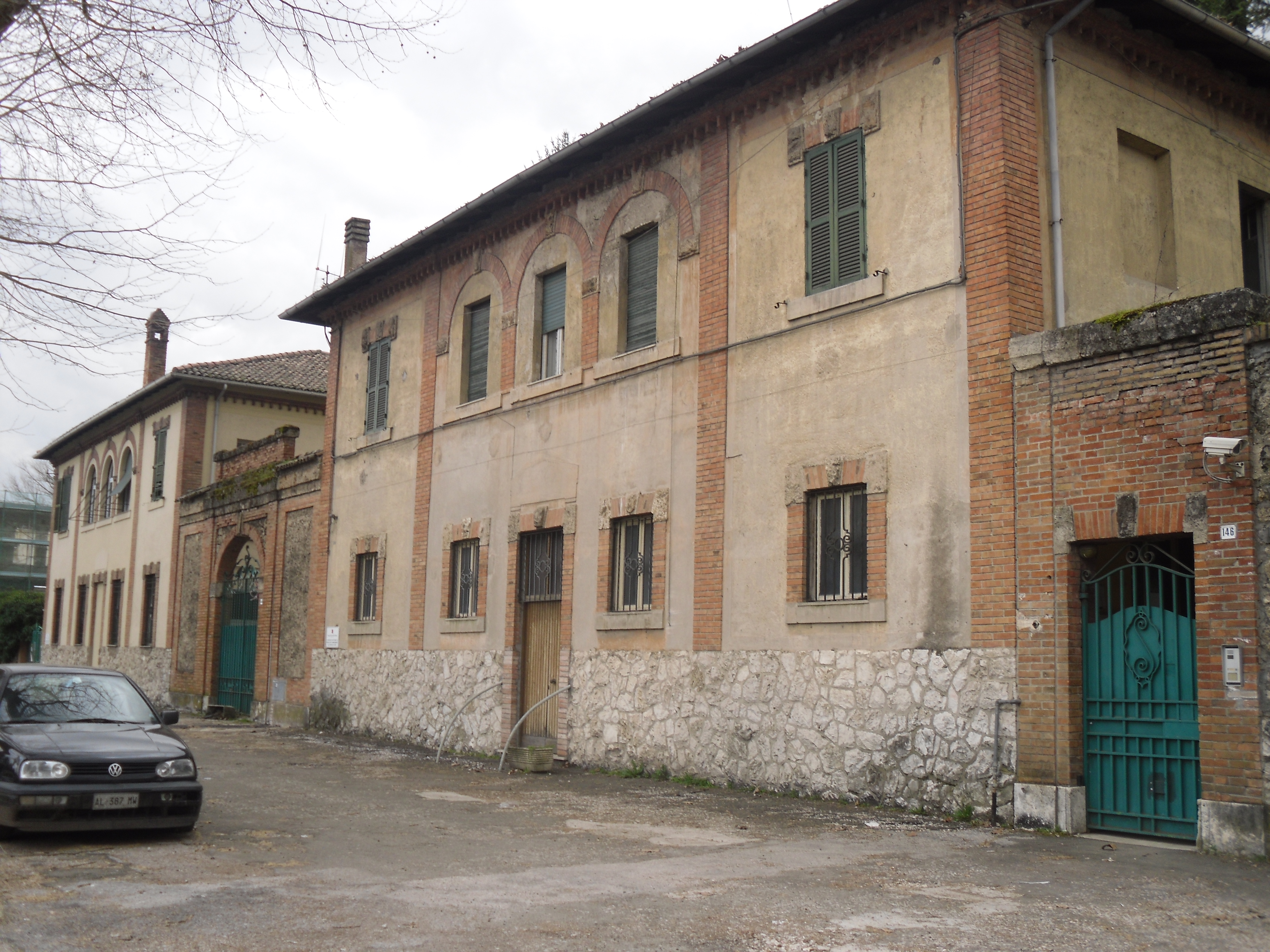 The entrance of the former SuperTessile factory in Rieti, Italy, in Maraini street. It was founded in 1927, purchased by Cisa-Viscosa and later by SNIA-Viscosa, and evetually closed in the late 1970s.